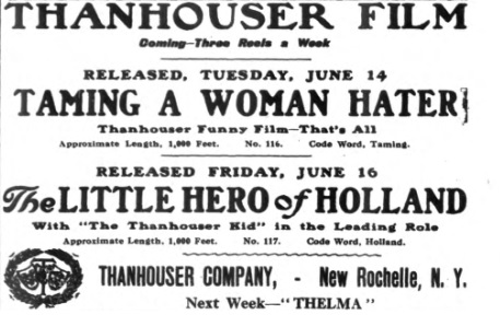 An advertisement for Taming a Woman Hater and the Little Hero of Holland in the New York Dramatic Mirror on June 18, 1910